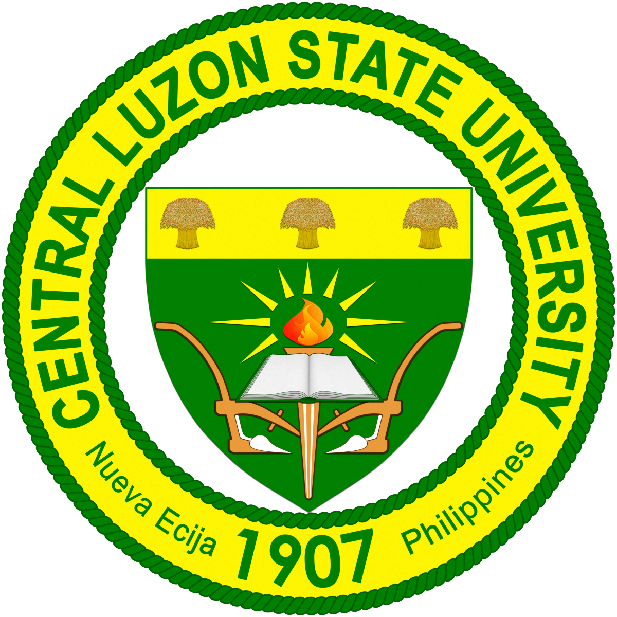 Central Luzon State University's Official Logo (as of 2016)